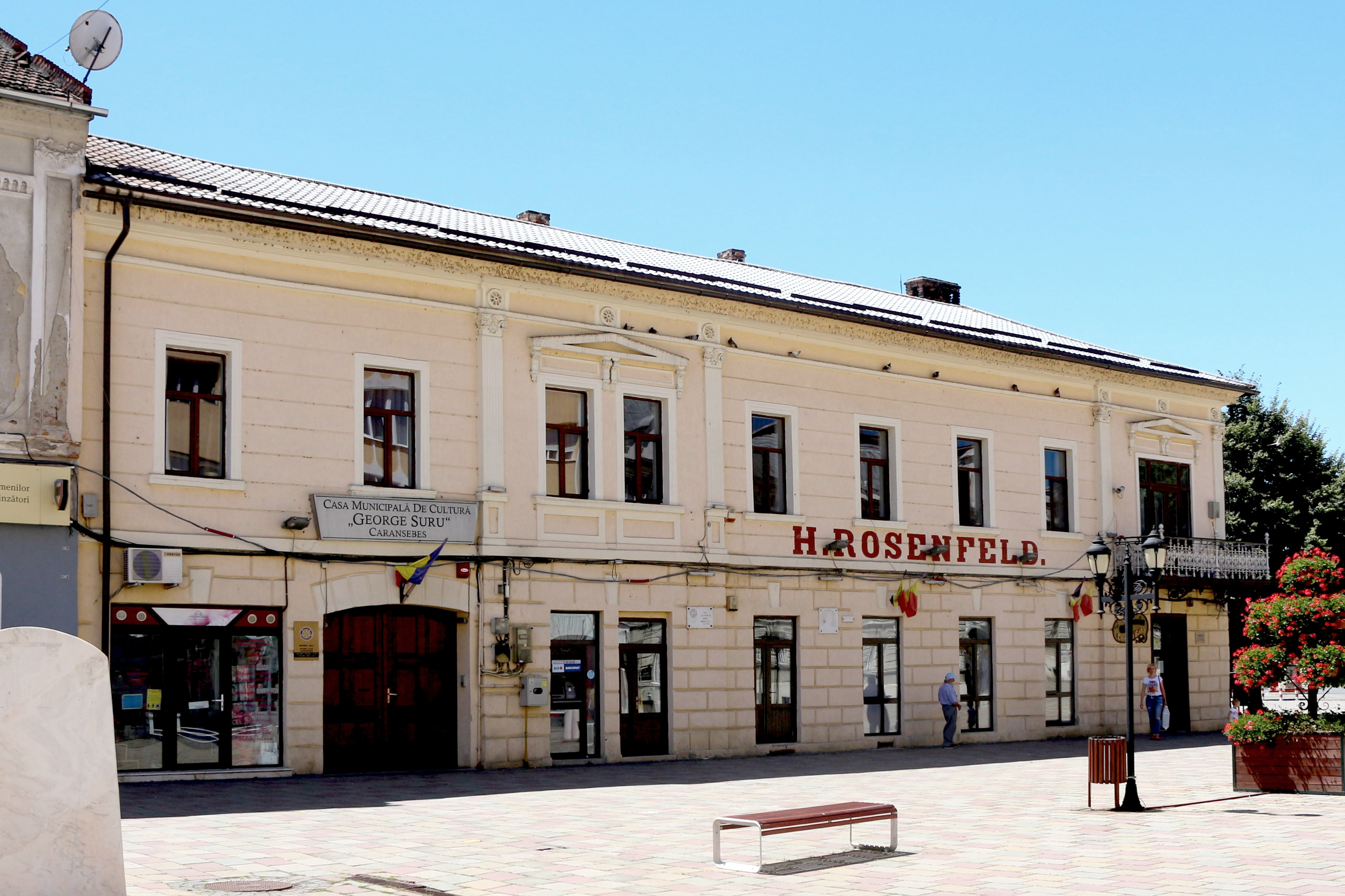 "George Suru" Municipal House of Culture, Eiscopiei St., no. 6, Catransebeș, Romania, built 1886.